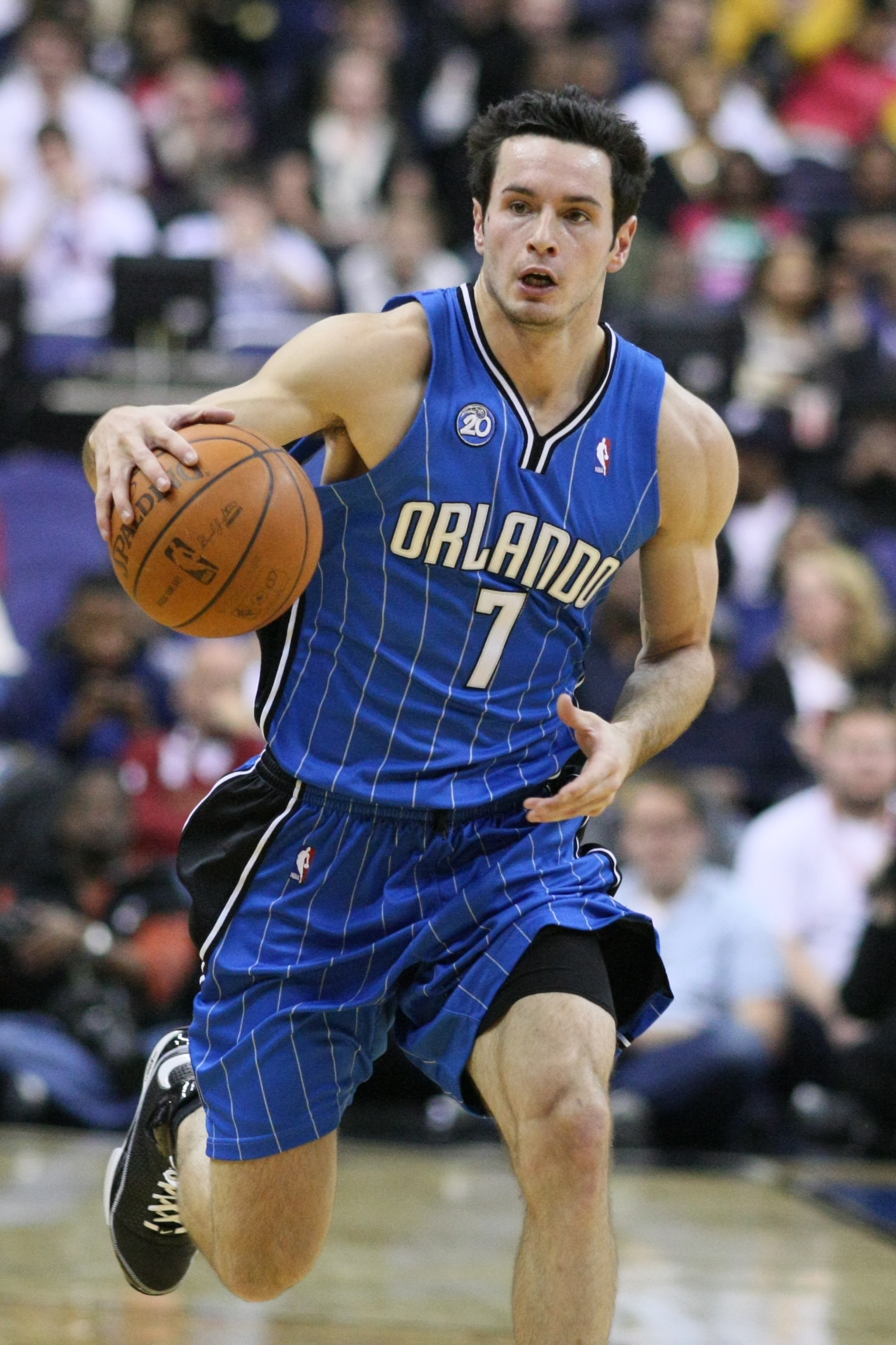 JJ Redick at the Washington Wizards v/s Orlando Magic game on 11/27/08